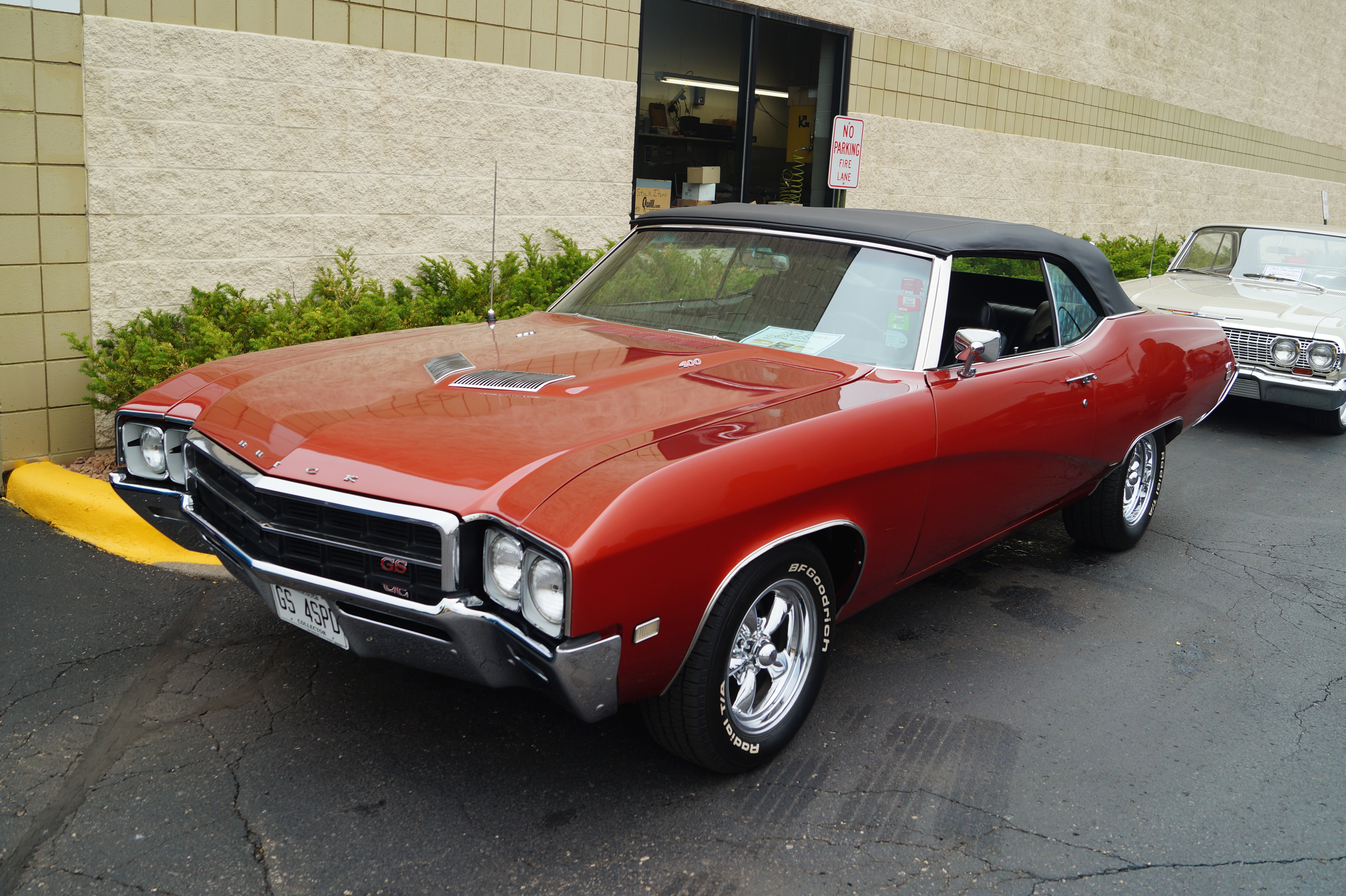 15th Annual TSI/Smith Nielsen Automotive Car Show Brooklyn Park, MInnesota Click here for more car pictures at my Flickr site.